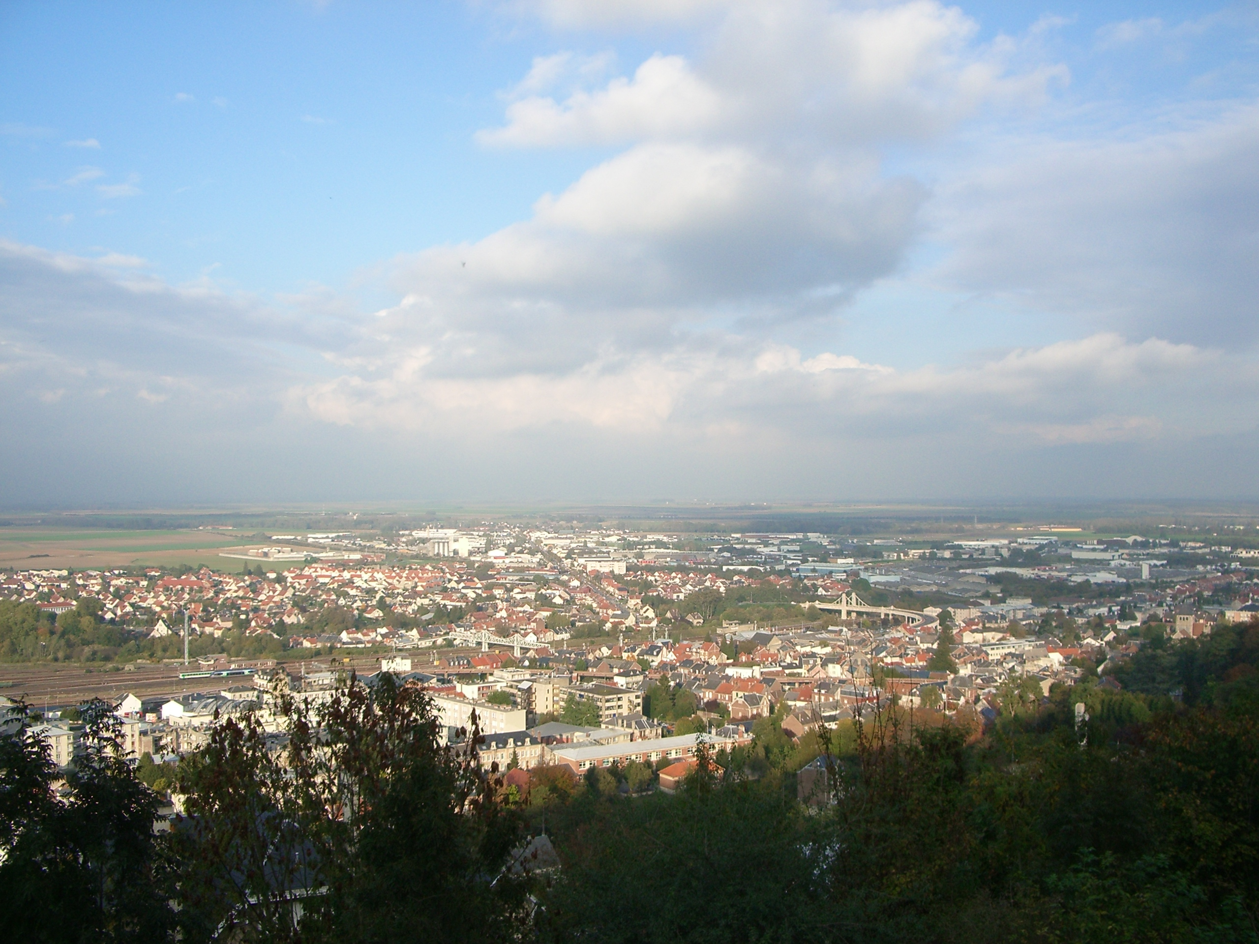 Laon toward north, Aisne, France